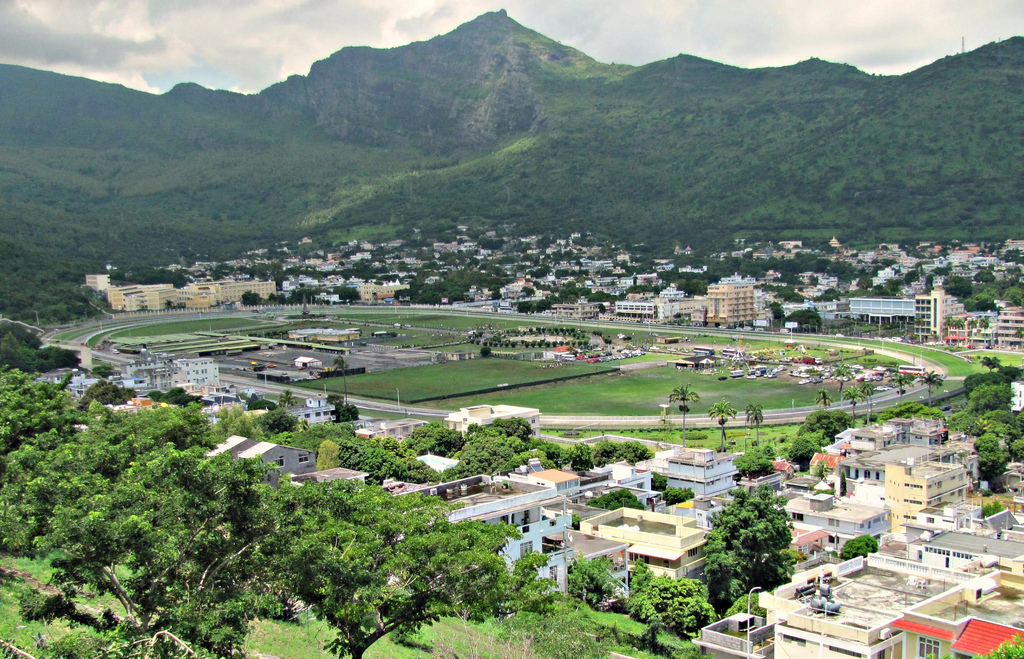 The Champ de Mars Racecourse in Port Louis, Mauritius